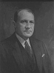 Governor Fred H. Brown. From